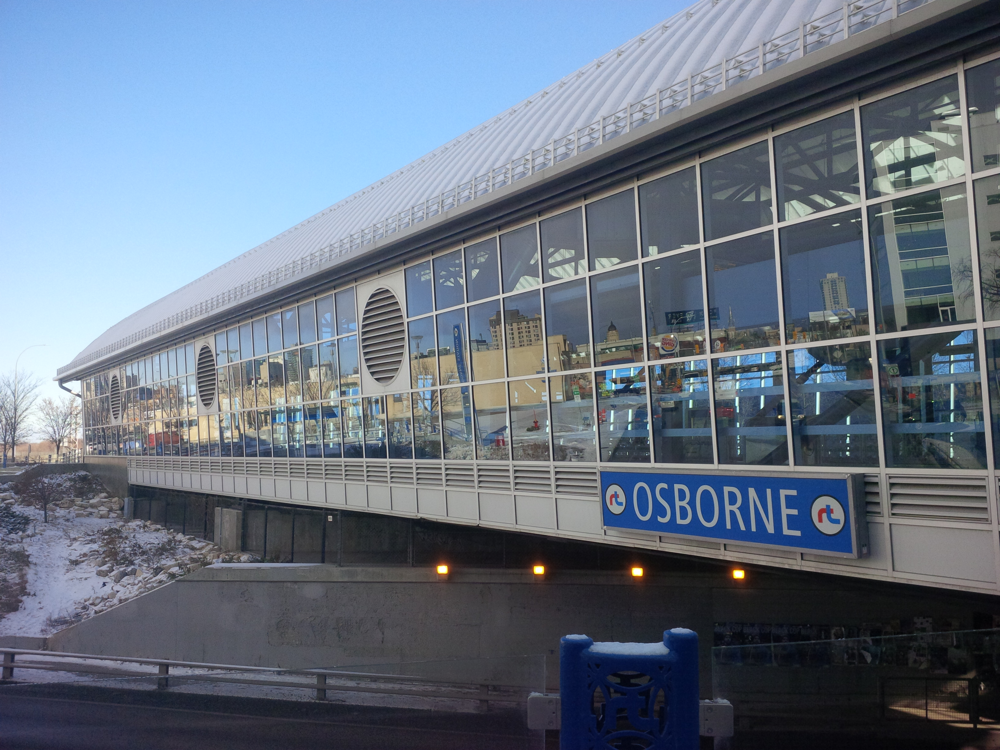 Osborne Station, part of the Southwest Transitway.